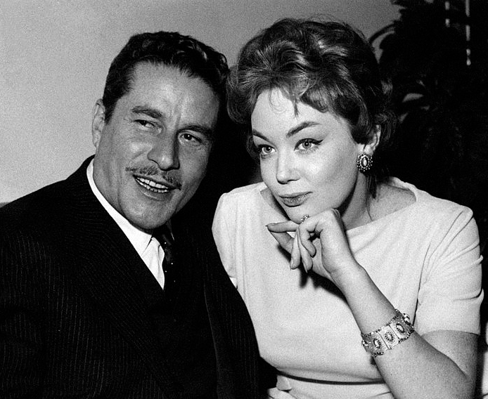 Italian actress Edy Vessel (Edoarda Vesselovsky) sitting with Italian actor Amedeo Nazzari (Amedeo Carlo Leone Buffa) on the set of the film Il raccomandato di ferro. 1959